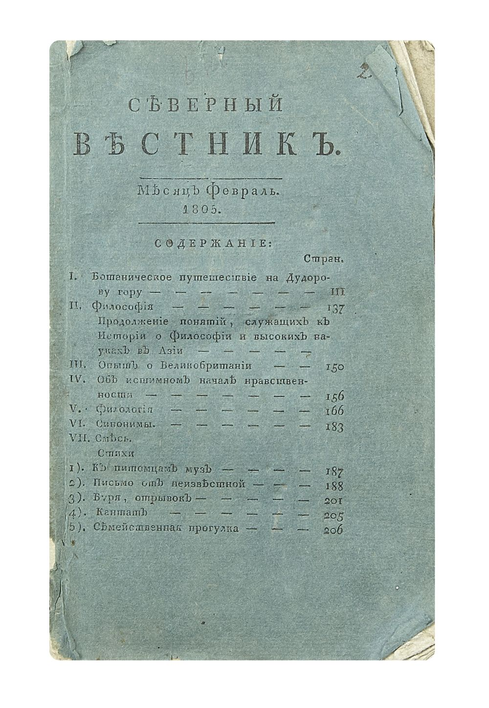 Severnyi Vestnik February 1805